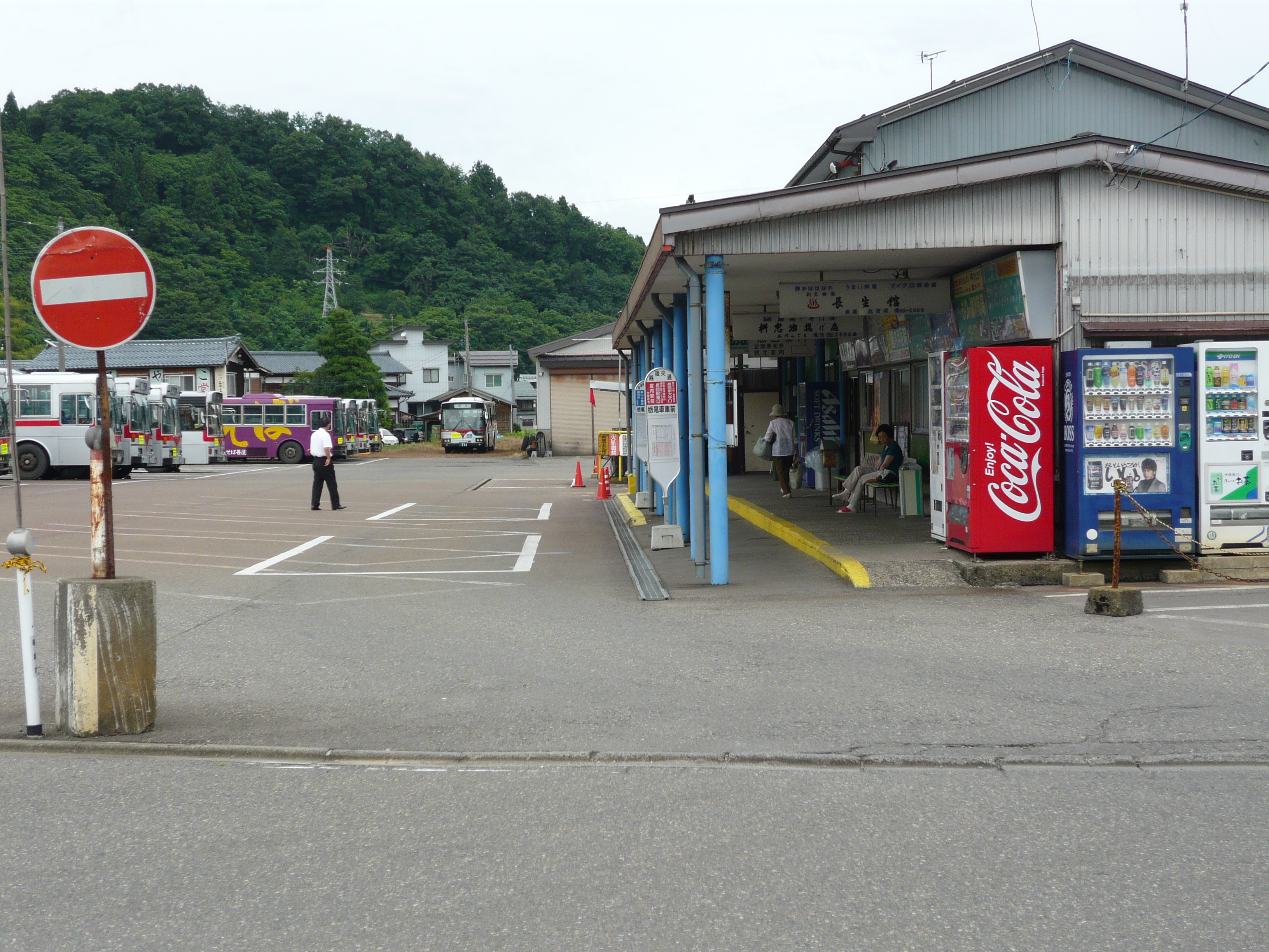 Remains of Tochio Station Tochio Line in 2008